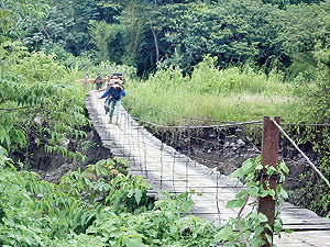 CIFOR's research helps to identify effective methods for measuring and monitoring reduced carbon emissions from avoided deforestation and forest degradation.